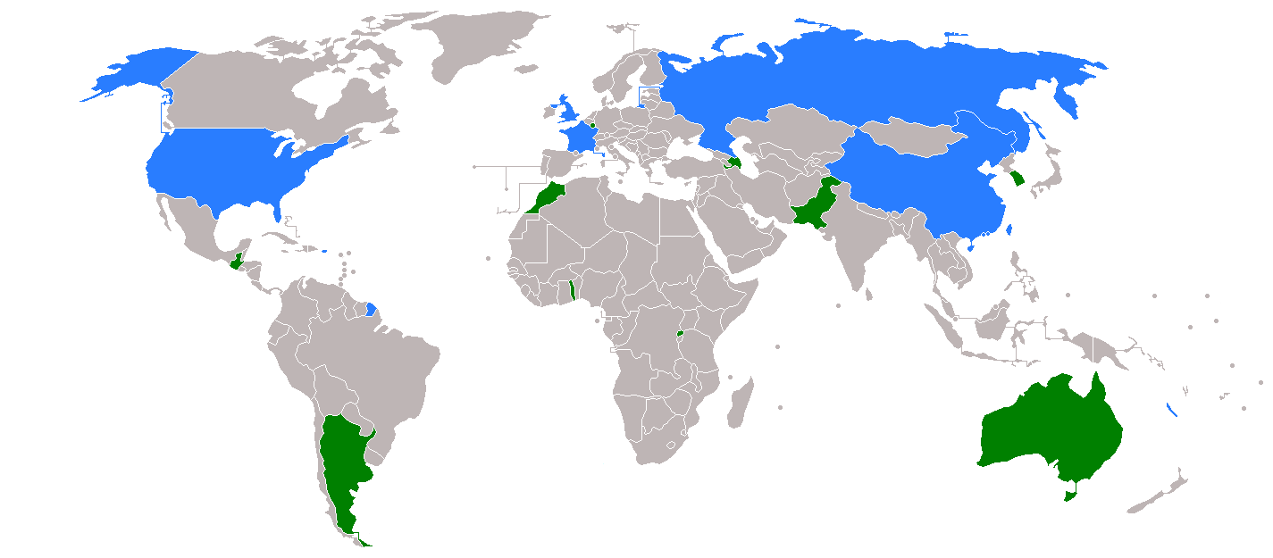 Members of the United Nations Security Council for the year 2013. Permanent members in blue, elected members in green.